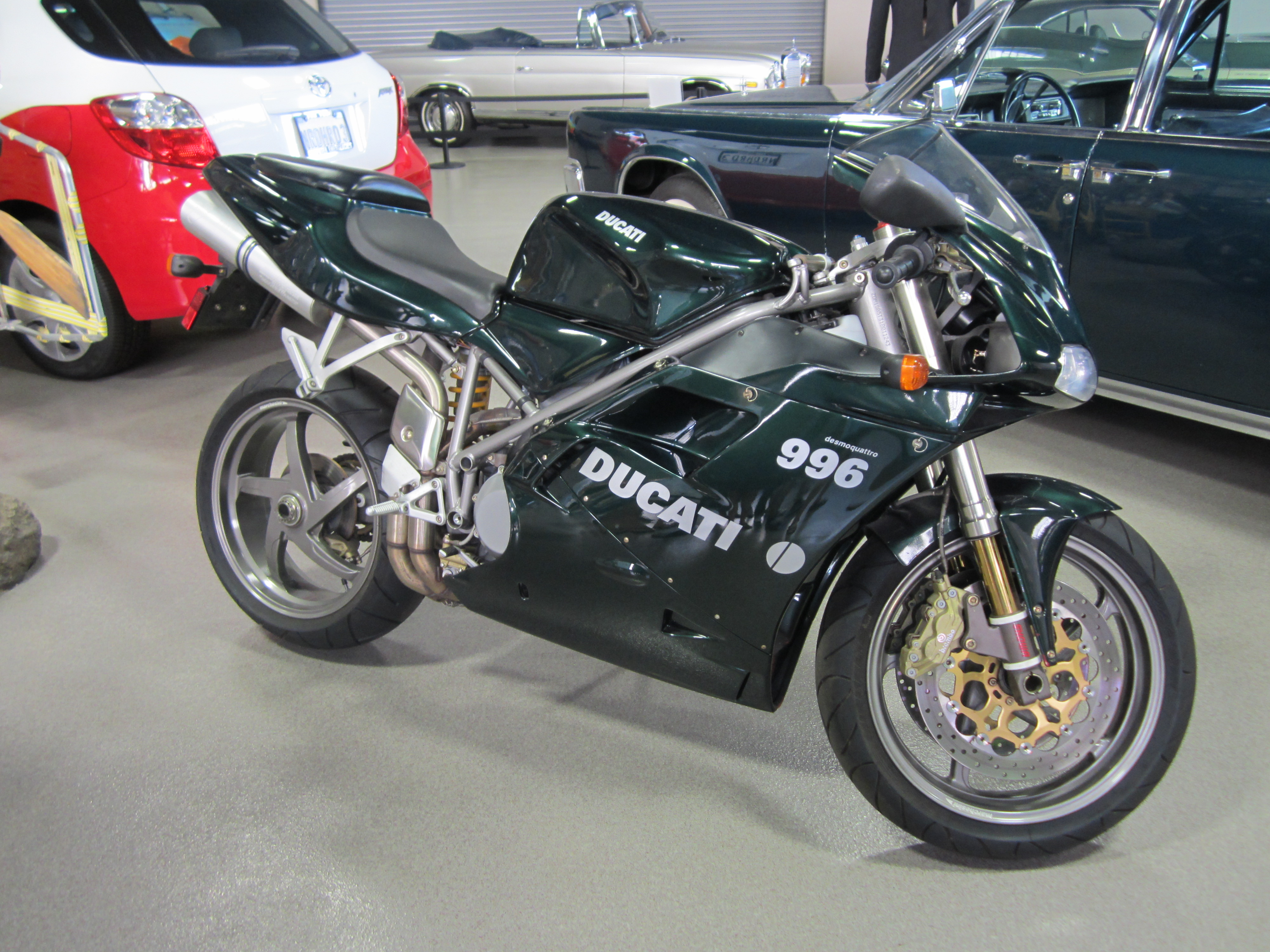 Ducati 996 driven by Trinity (played by Carrie-Anne Moss) in the 2003 film The Matrix Reloaded, Warner Bros. Studios, Hollywood.